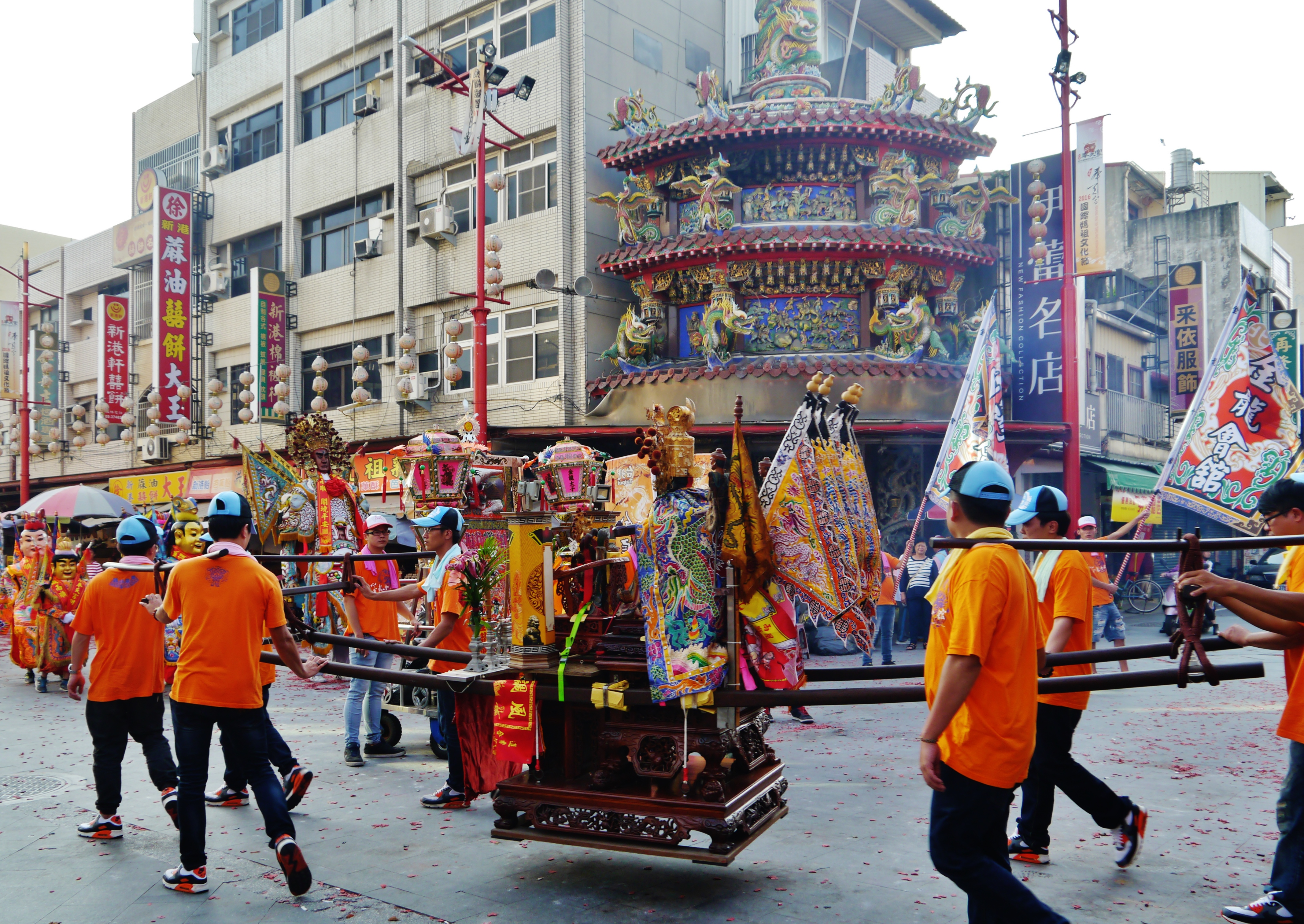 Temple Feast of the Chaotian Temple, Beigang, Yunlin County, Taiwan